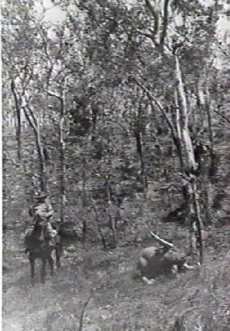 Man on horseback near wounded buffalo, possibly Paddy Cahill at Oenpelli